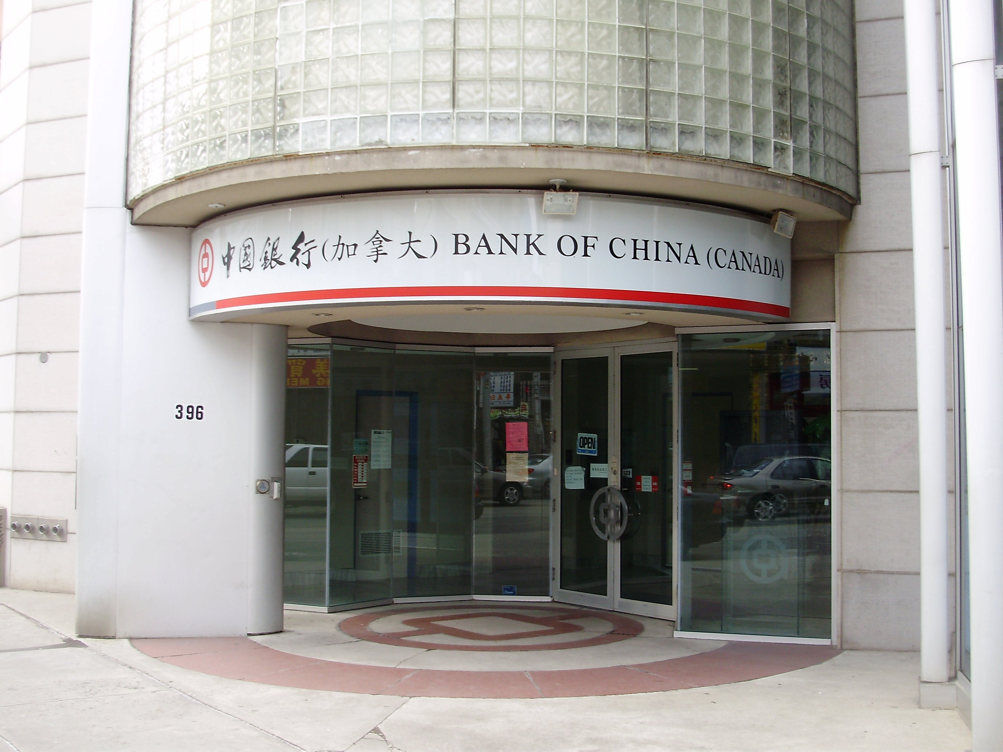 A Bank of China (Canada) branch at 396 Dundas Street West in Toronto, Ontario, Canada, in the heart of the city's Chinatown. The location pictured is one of four branches in Canada.